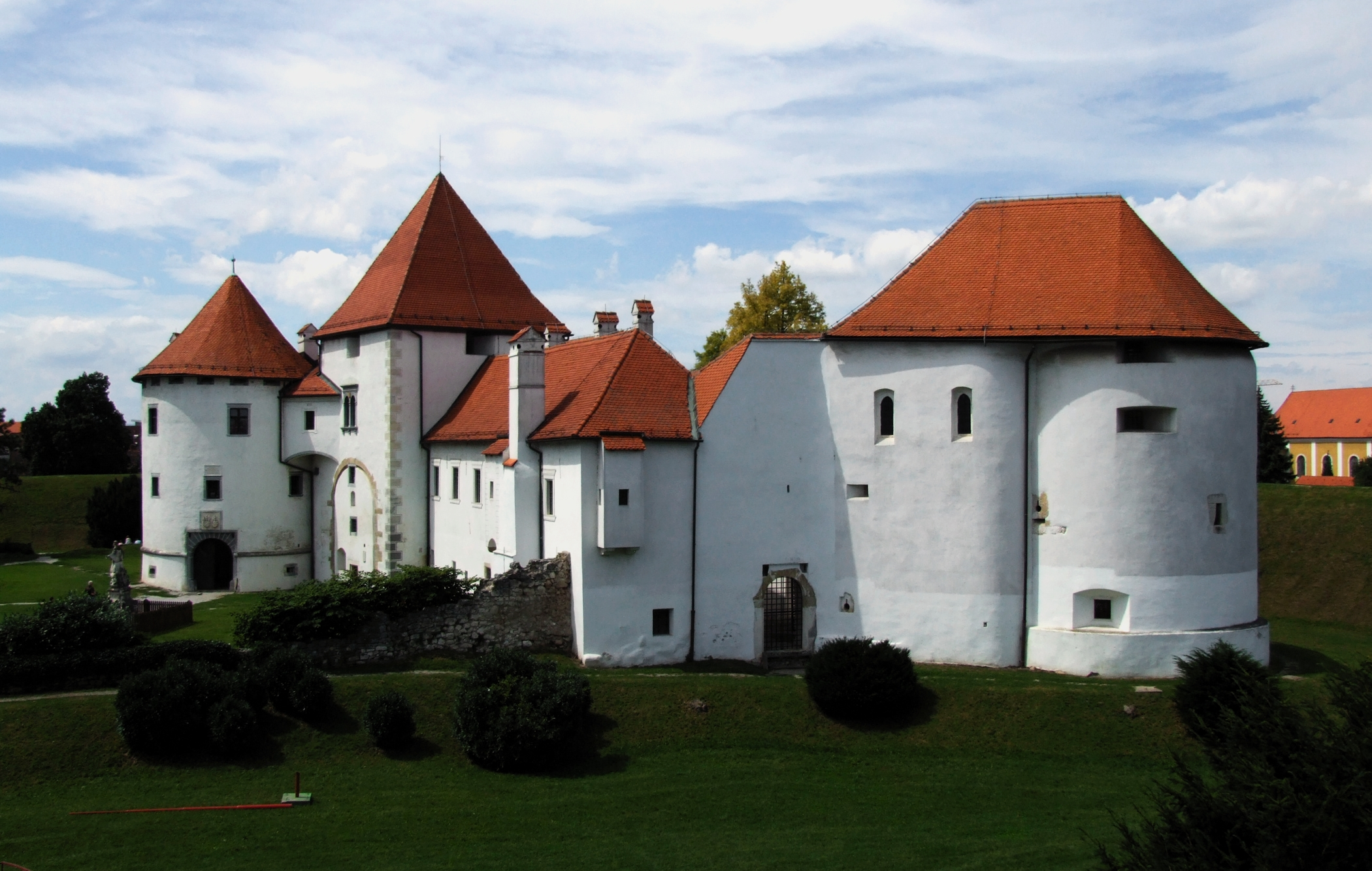 Castle (old town) in Varaždin, Croatia